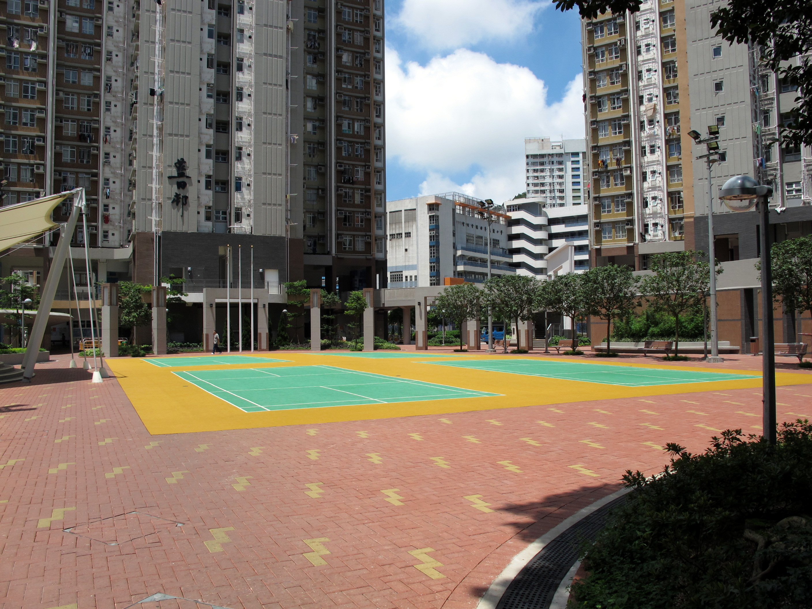 Lam Tin Estate Badminton Court 藍田邨